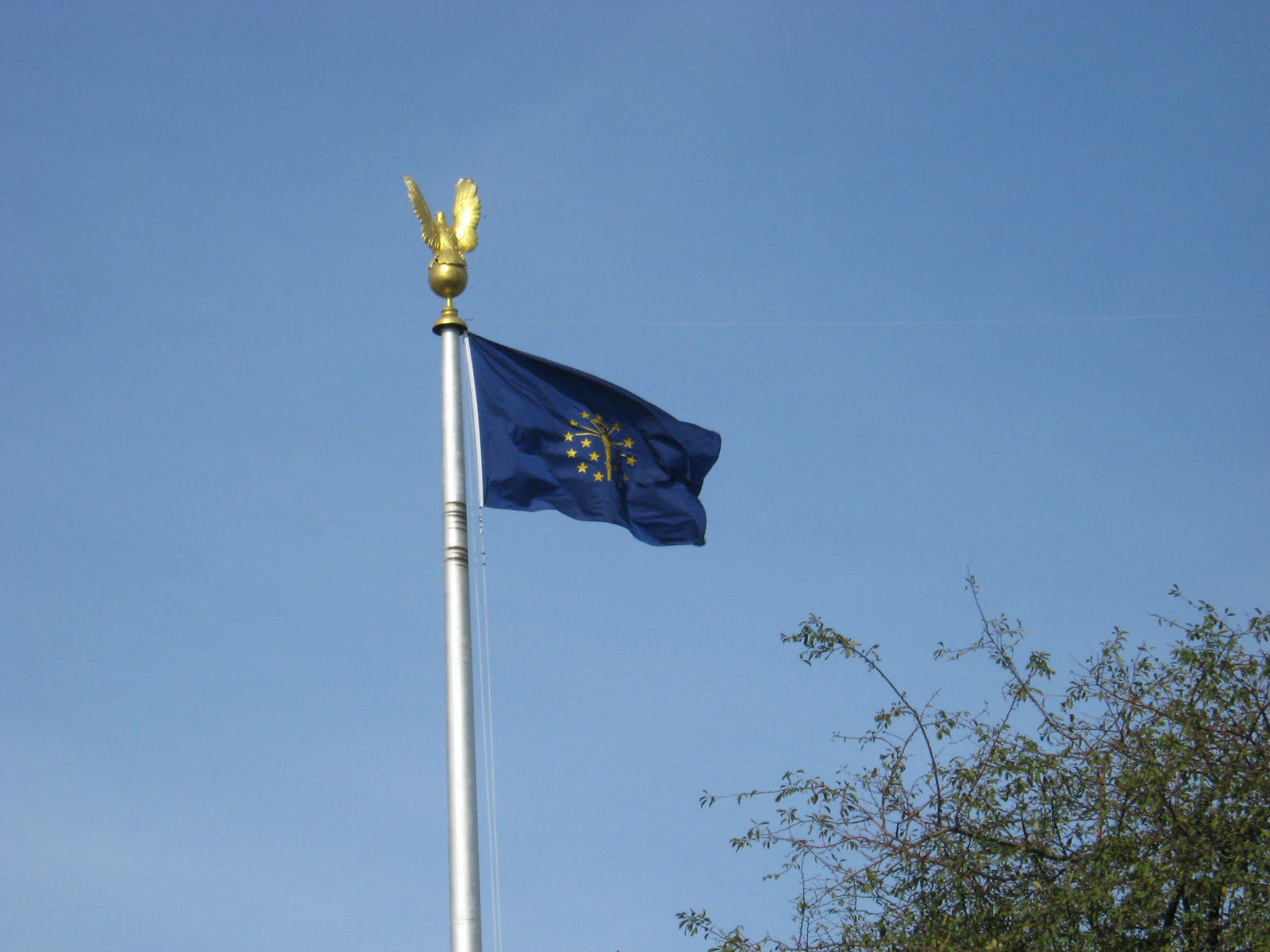 Indiana World War Memorial, Indianapolis Indiana